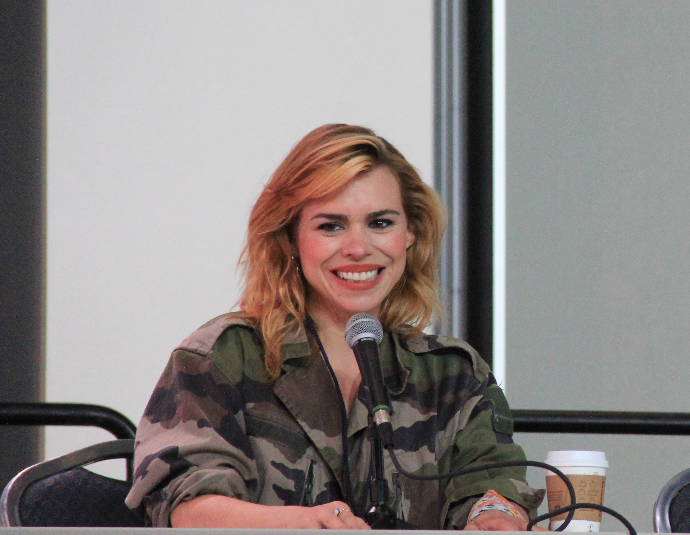 IMG_6588 Taken at Space City Comic Con 2016.